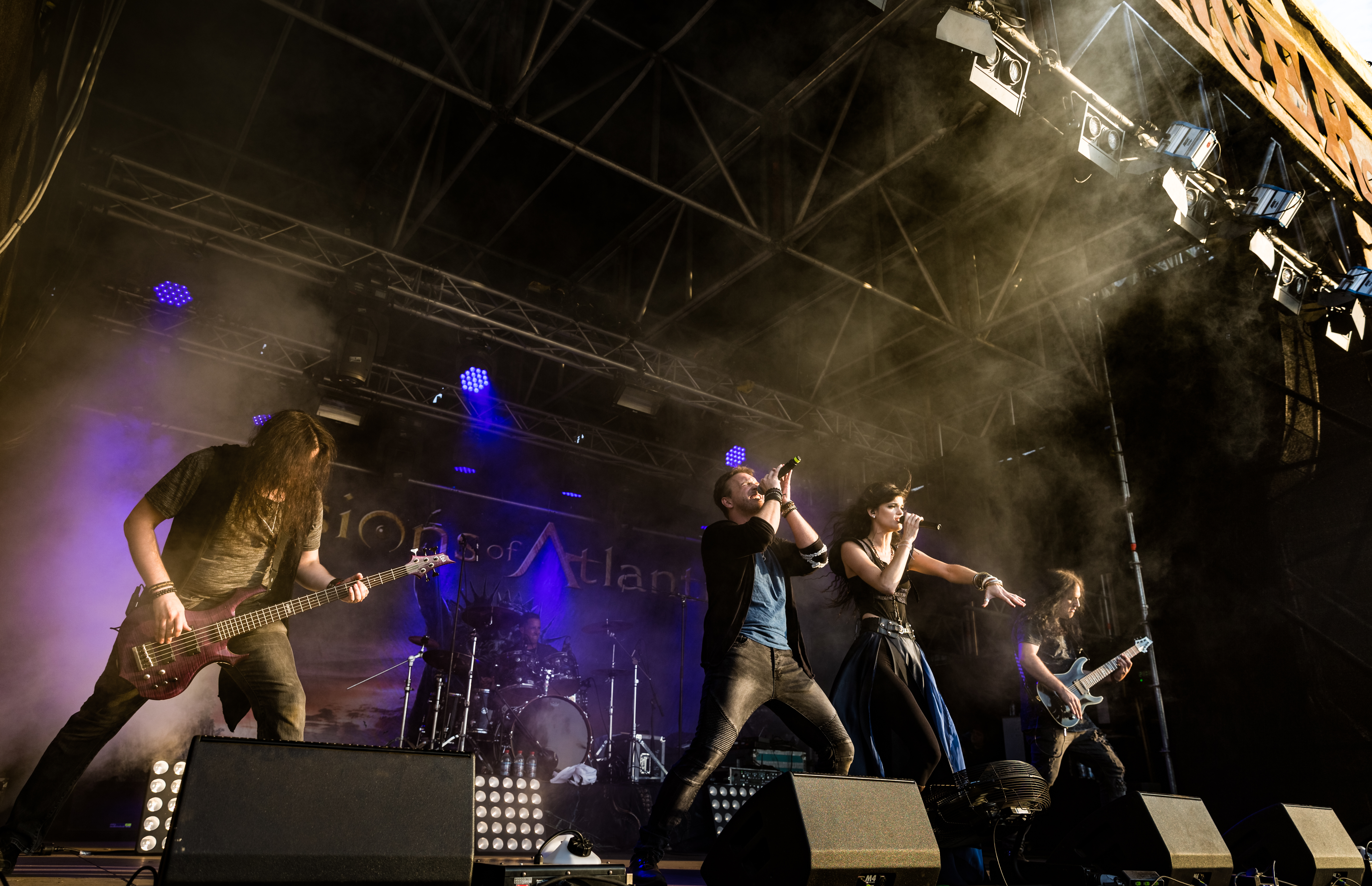 Visions of Atlantis - Wacken Open Air 2018